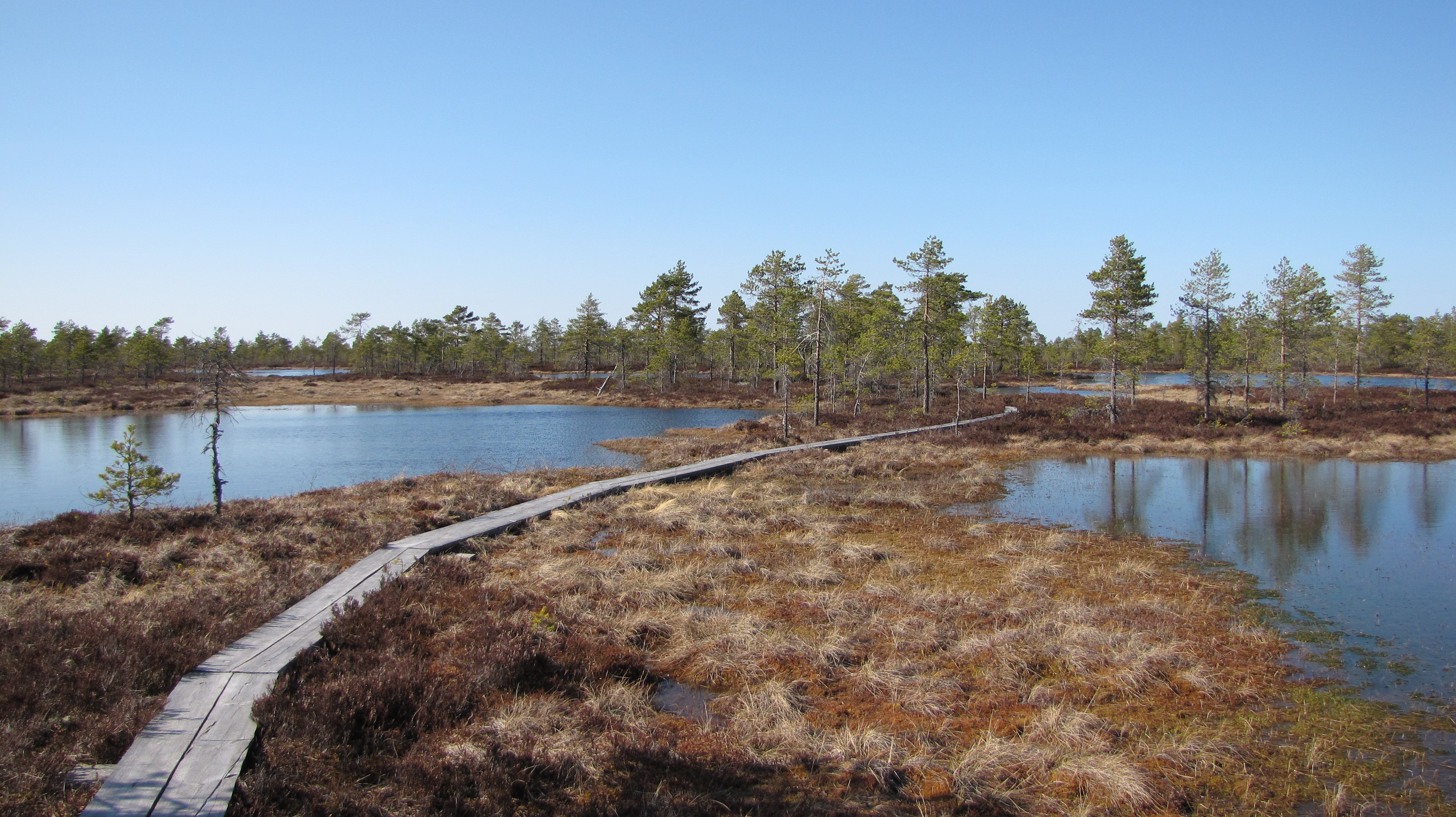 The Kauhaneva mire in Kauhaneva–Pohjankangas National Park, Finland. Kauhalammi lake to the right of the duckboards.